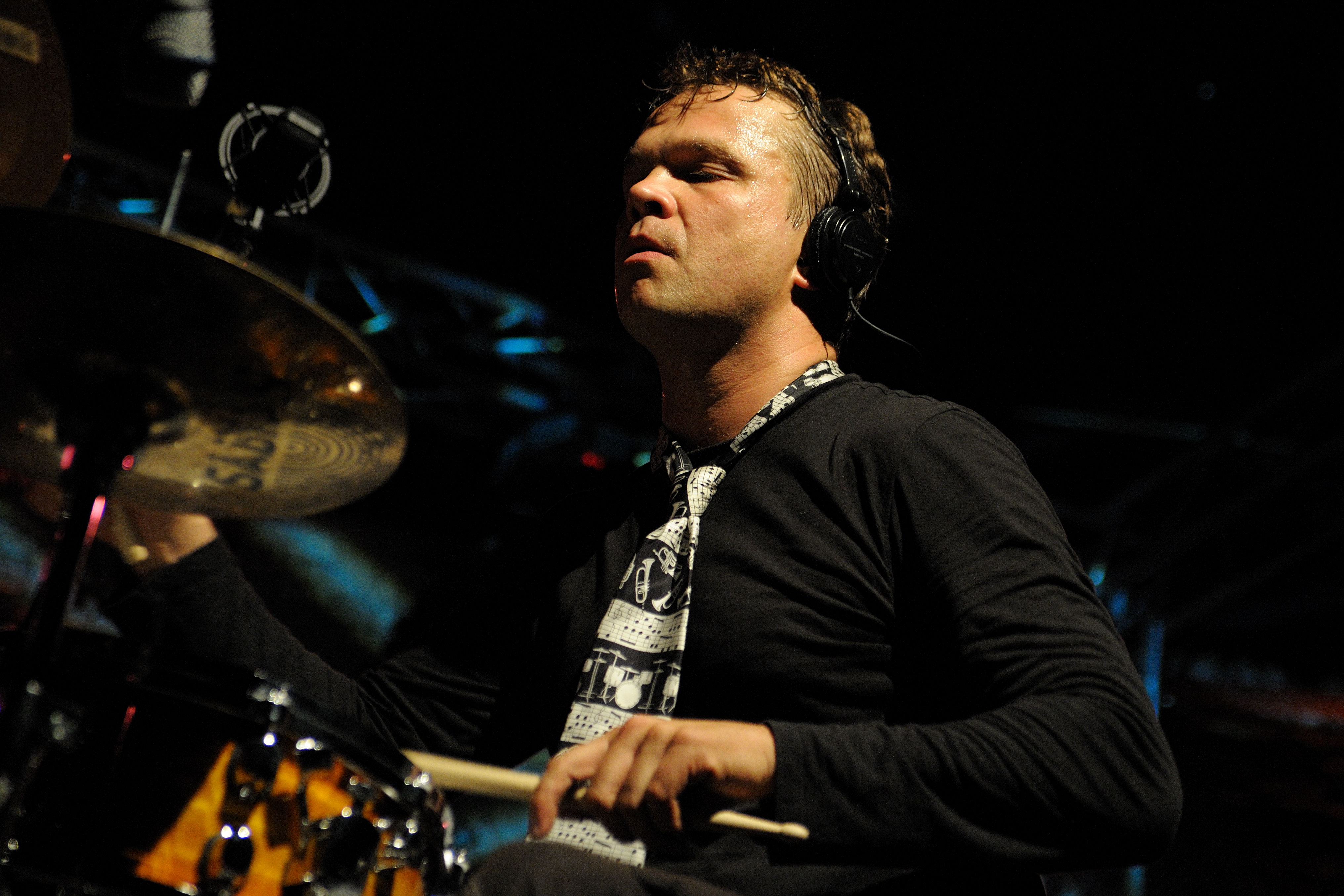 Crossdrumming Festival 2009